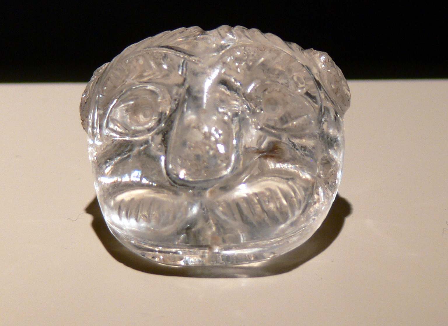 Museum of Islamic Art ( Berlin ). Keir collection: Rock crystal lion head, used as pommel ( 12th century ), from Sicily, Inv.-Nr. I 4650.